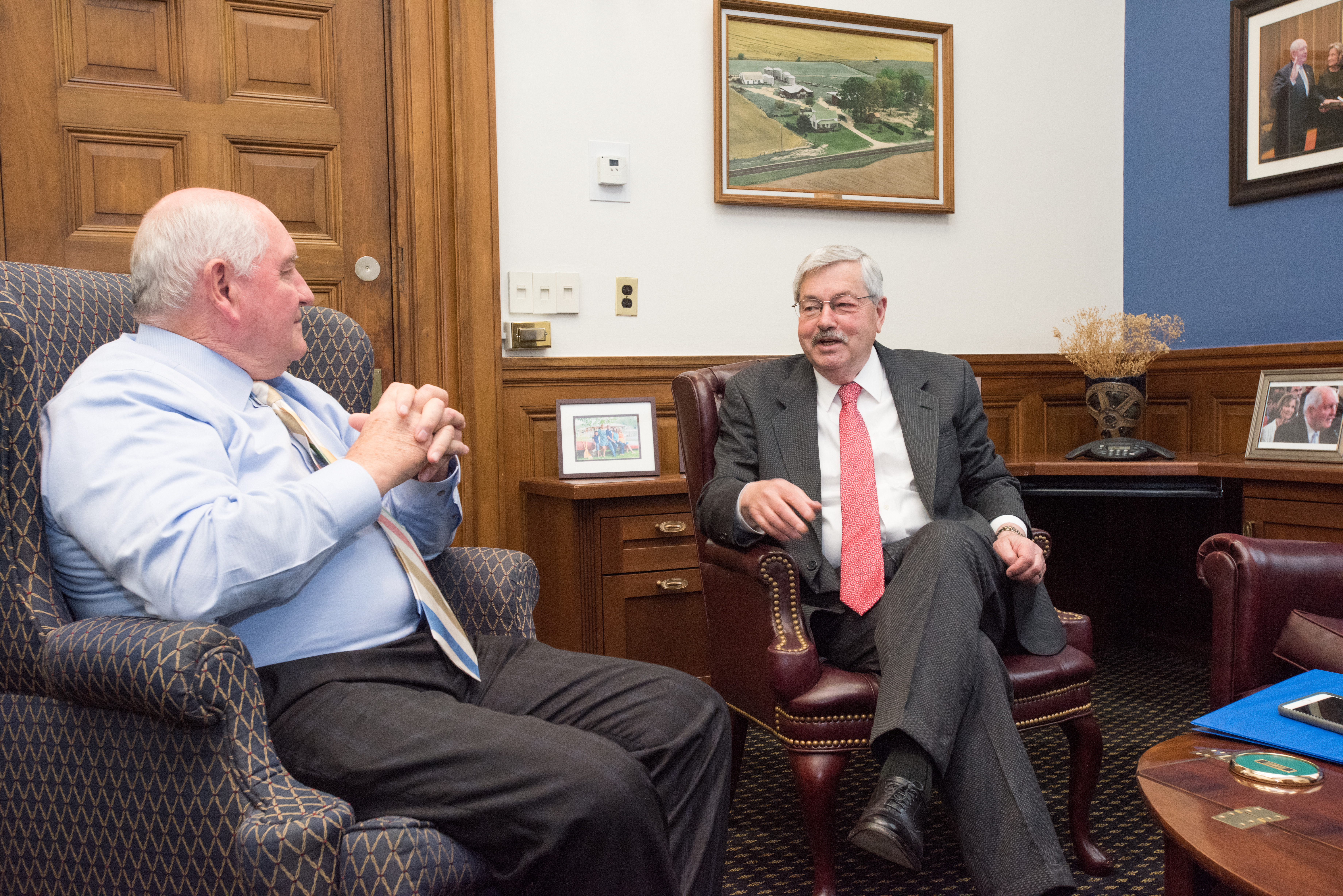 Agriculture Secretary Sonny Perdue listens to U.S. Ambassador to China Terry Edward Branstad to the U.S. Department of Agriculture (USDA) headquarters in Washington, D.C., on May 30, 2017. USDA Photo by Lance Cheung.